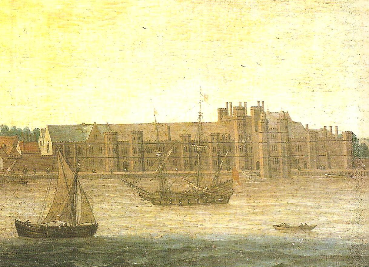 Anonymous painting of Greenwich Palace during the reign of Henry VIII.